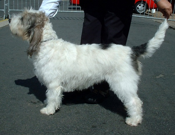 Melanter Grandtullt at Melwarrior (Regie) owned by Mr Trevor Mellor. Photo by sannse at the City of Birmingham Championship Dog Show, 29th August 2003 Слика:G Basset Griffon Vendeen 600.jpg